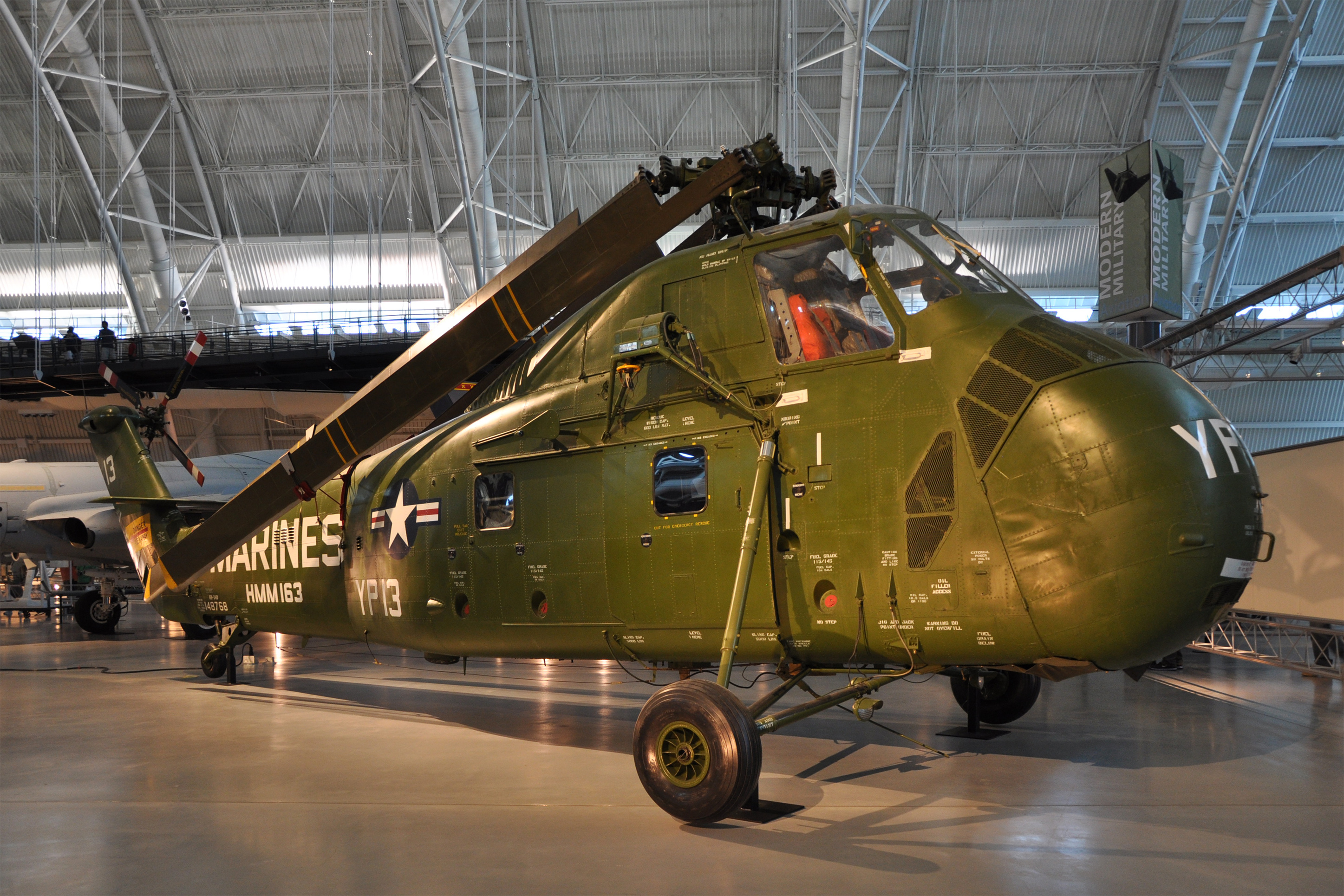 Sikorsky UH-34D Seahorse at Steven F. Udvar-Hazy Center in Virginia, USA.